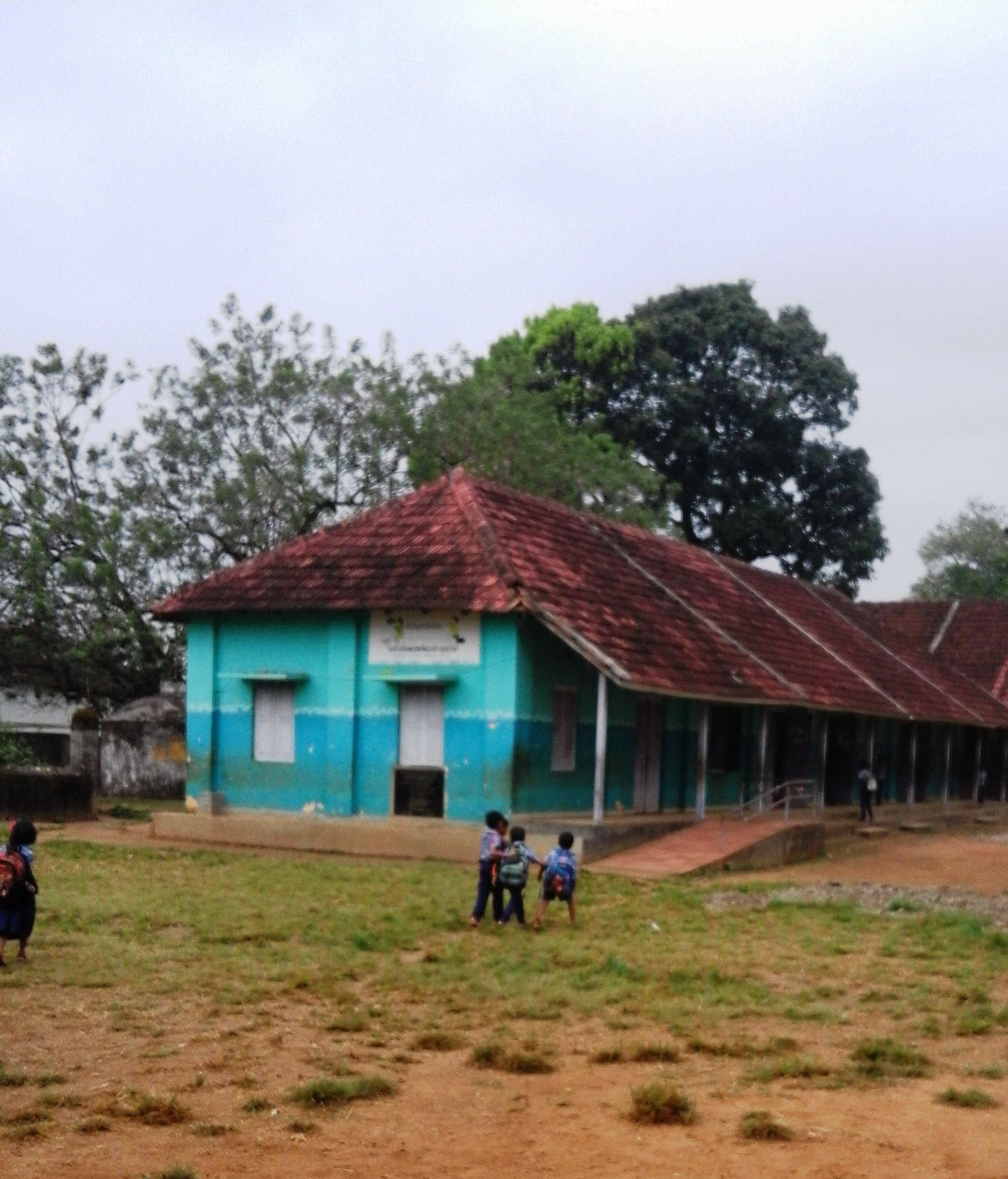 School located on Panamaram junction, Wayanad district, Kerala state, India.